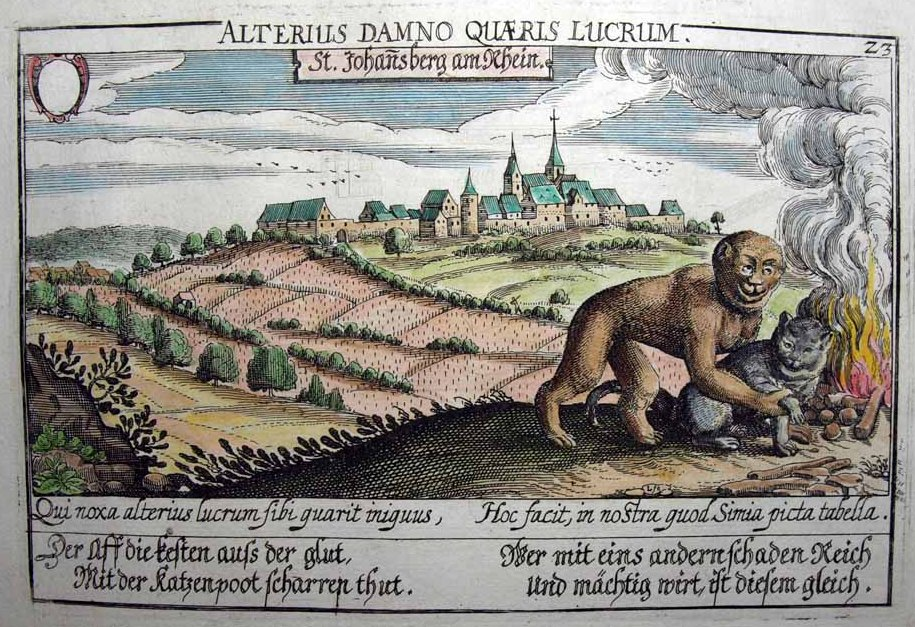 A view of the famous Schloss Johannisberg wine estate by Eckhard Löffler. First published accompanied by verses by Daniel Meisner in 1623 in the Thesaurus Philopoliticus (later known as the Sciographia Cosmica), this work is a fascinating combination of two popular genres - the Emblem Book and the Book of Town Plans. The motto, Alterius Damno Quaeris Lucrum, may be loosely translated as "Another is duped to benefit the greedy"